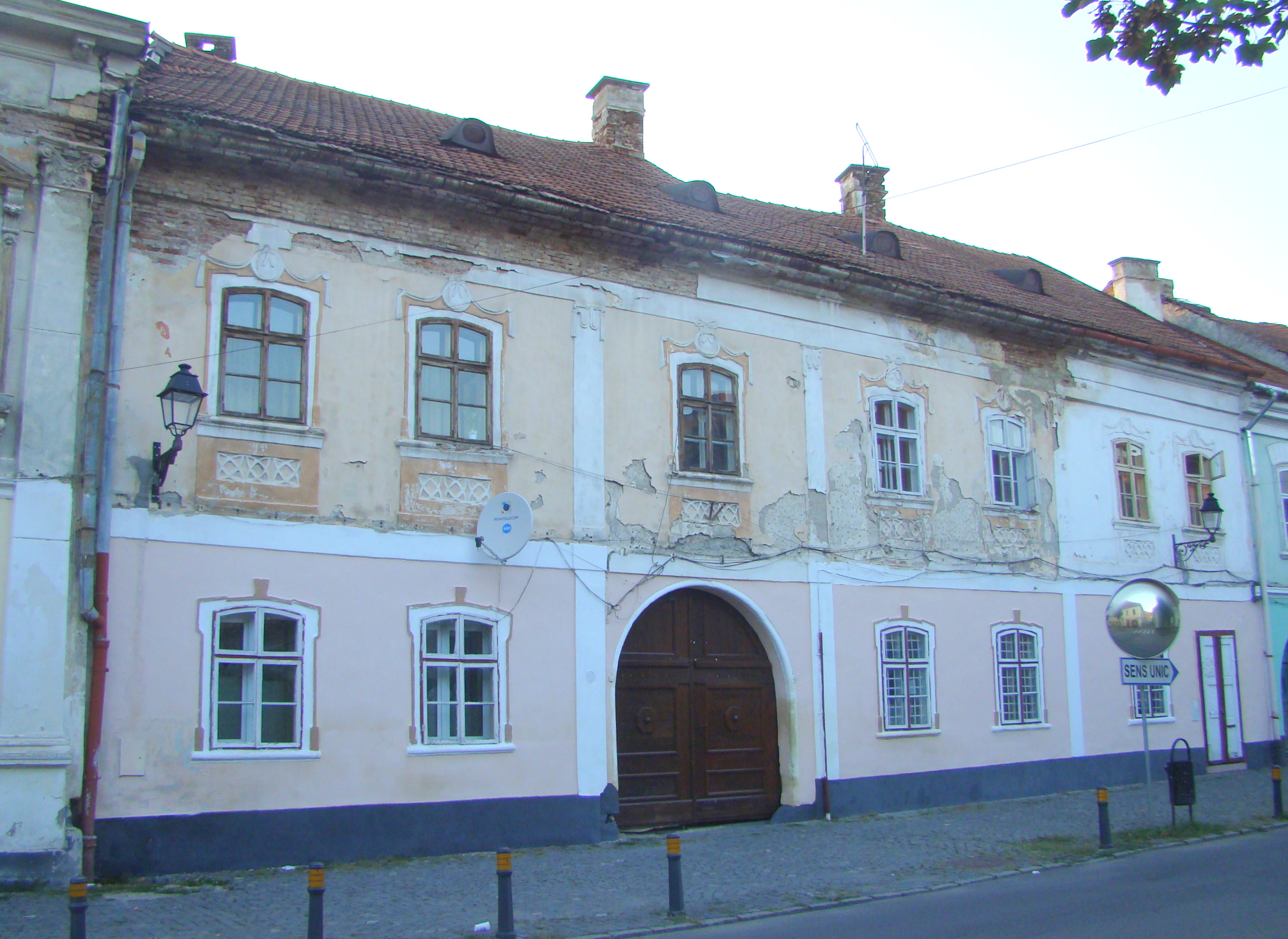 House, historic monument, in Bistrița, Nicolae Titulescu street 18